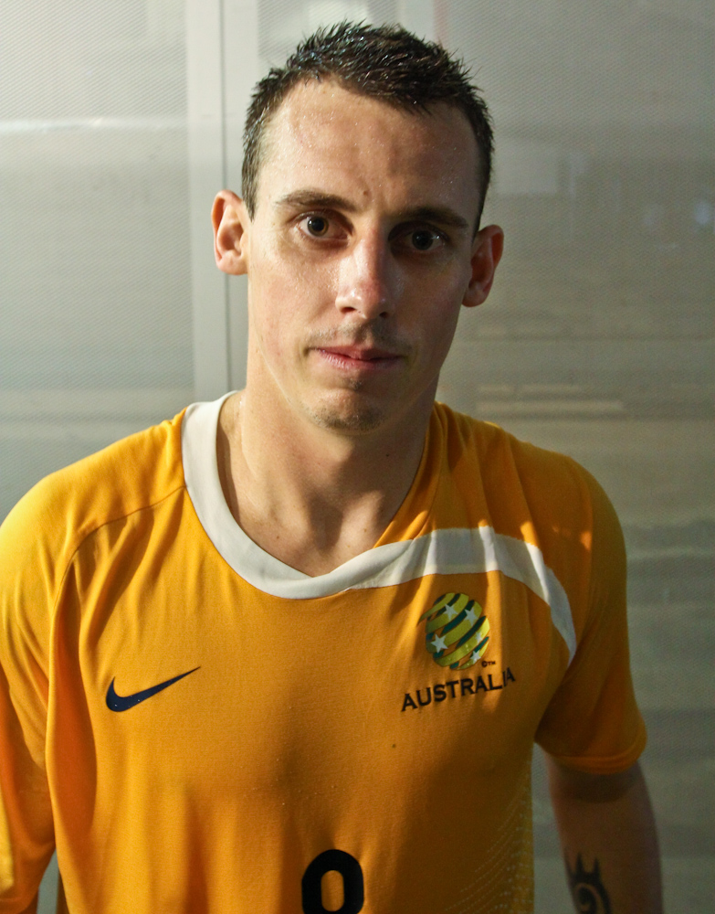 Luke Wilkshire after a training session at ANZ Stadium the day before a World Cup Qualifying game against Uzbekistan.